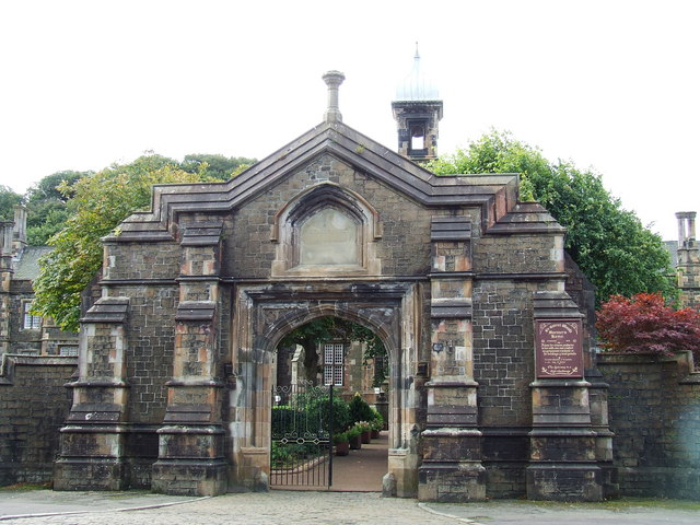 Sir Gabriel Woods Mariner's Home. The main gate on Newark Street. See also 559669, 559677 and 559692.